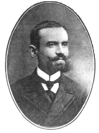 Aromanian writer and politician Nicolae Constatin Batzaria.